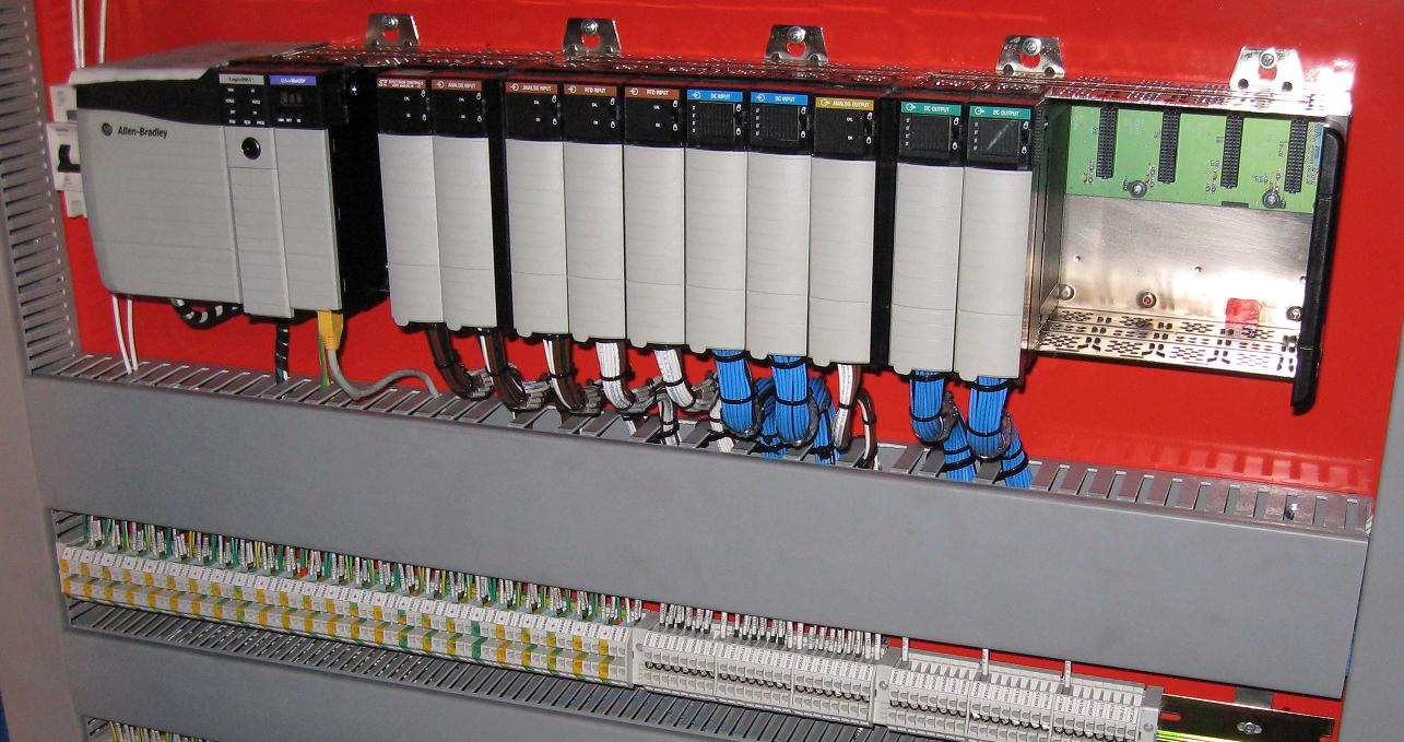 This is a picture of one PLC or Program Logic Controller. The brand is Rockwell or Allen Bradley. RsLogix 5000 Family.